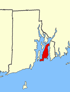 The U.S. state of Rhode Island, with Aquidneck Island highlighted in red. Created for use on the Aquidneck Island article. Original graphic in public domain from . Modified by Cleared as filed. Aquidneck Island map.png